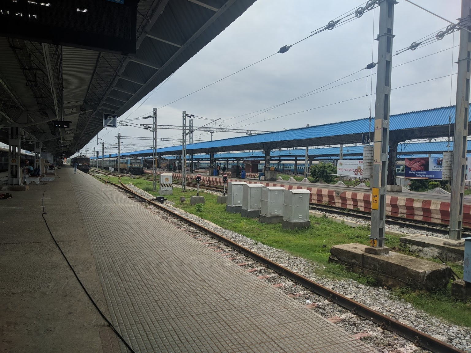 This is the Picture of PURI Railway Station